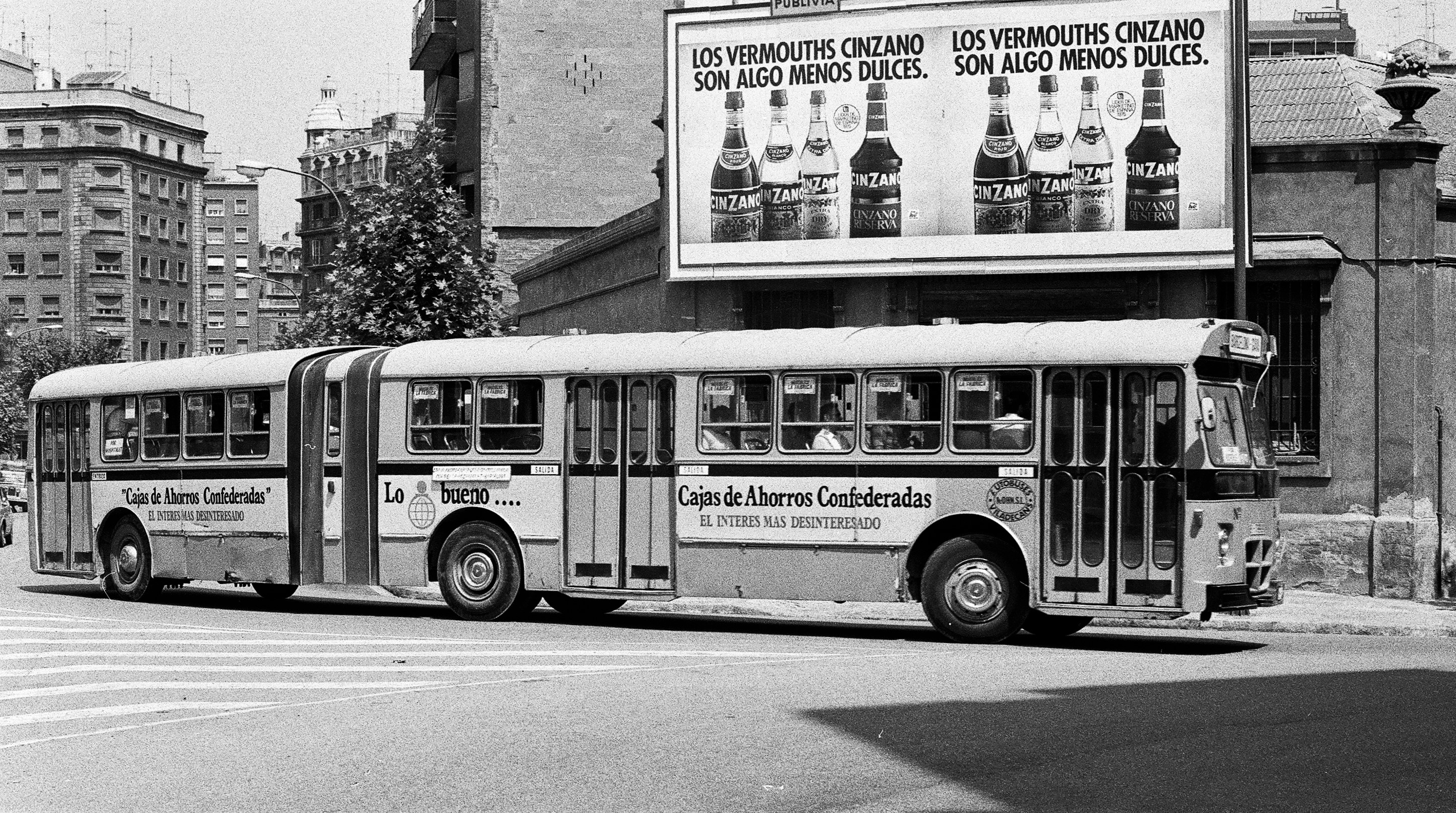 One of the six articulated buses Pegaso 6035-A put into service by Mohn S.L. between 1969 and 1971, at the intersection of Lleida and Tamarit streets in Barcelona.